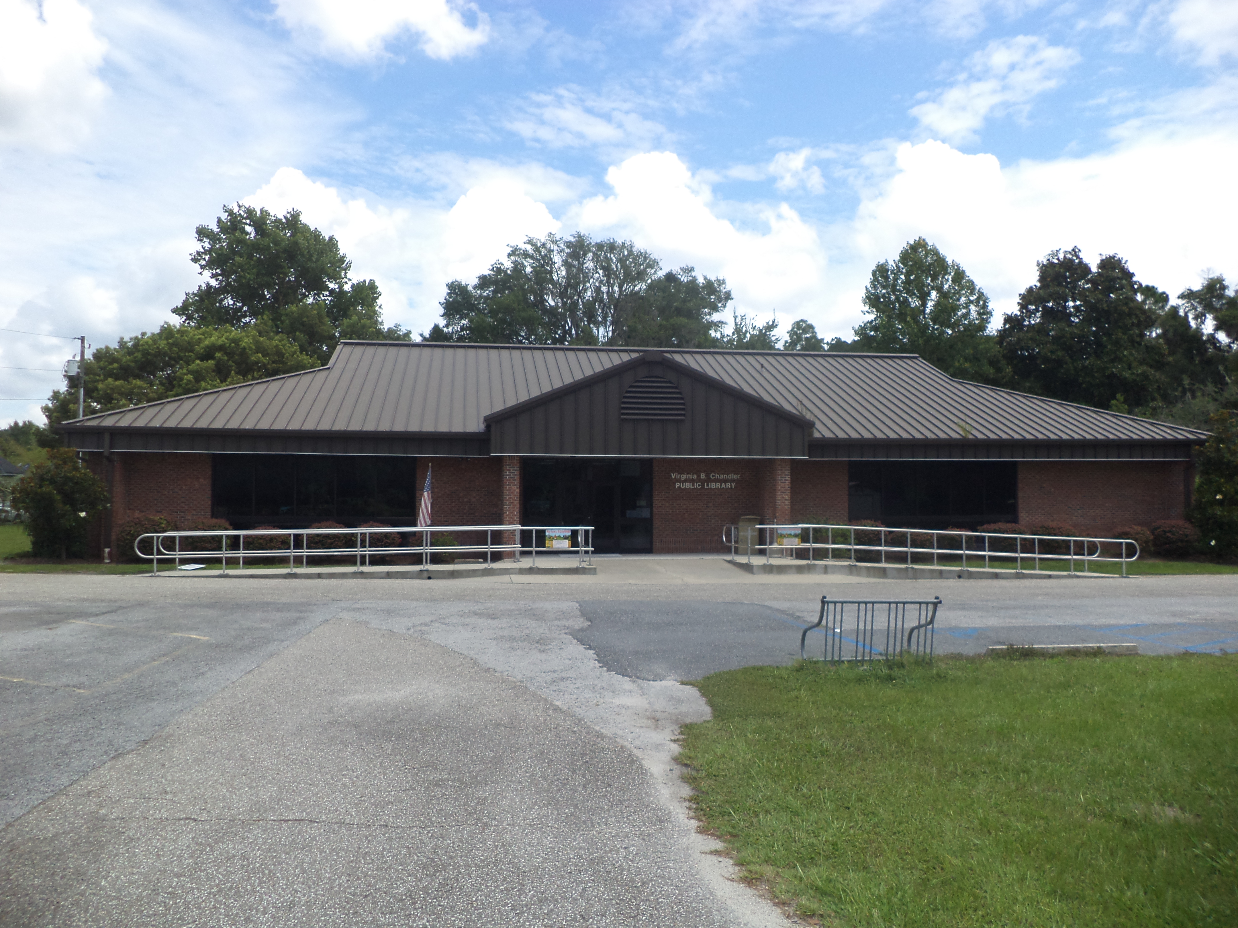 Virginia B. Chandler Public Library, Jasper, Hamilton County, Georgia